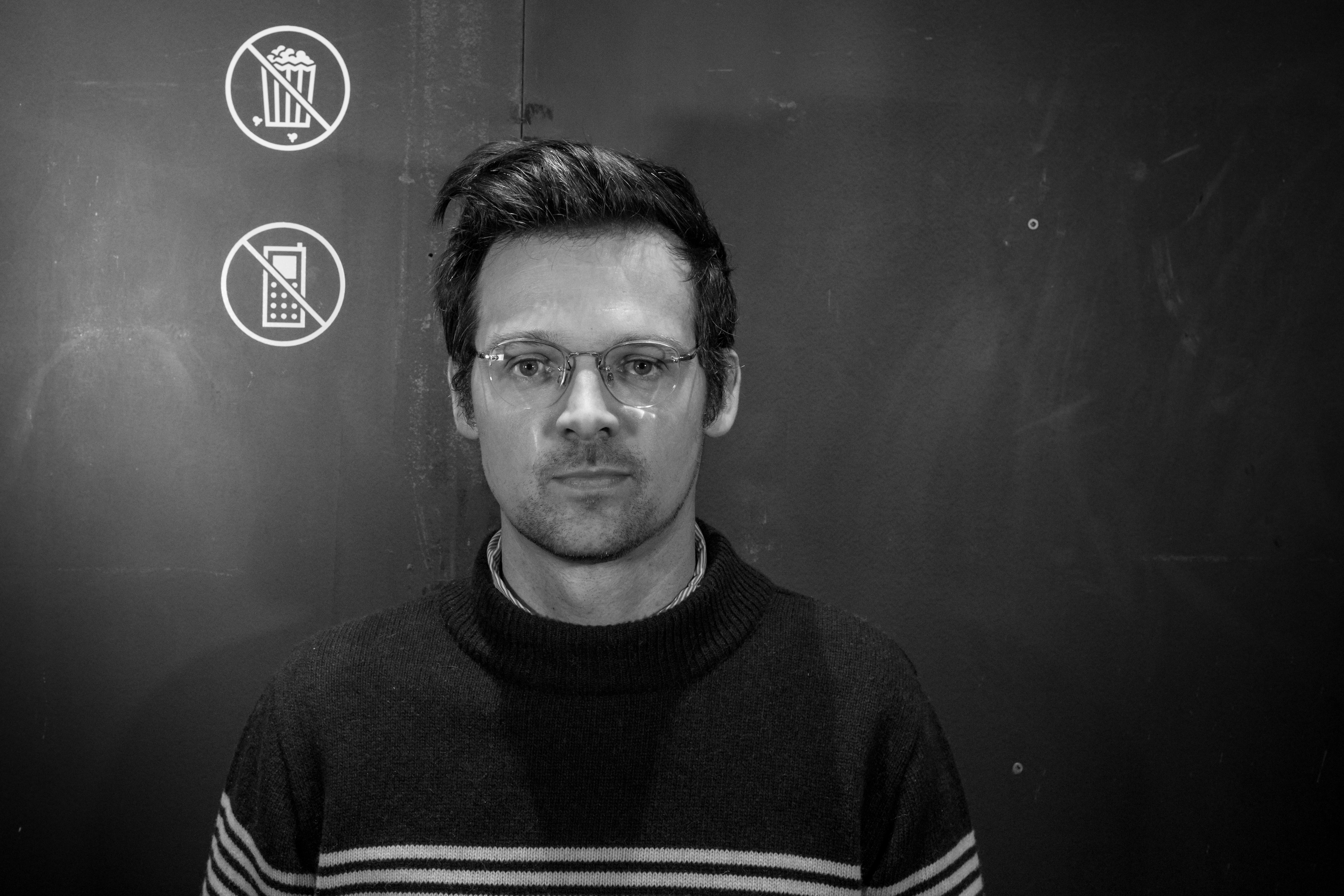 Portrait of film director Matthew Rankin, shot at the Cinémathèque québécoise during a Wikipedia evening on his work. The background was chosen by Mr. Rankin.